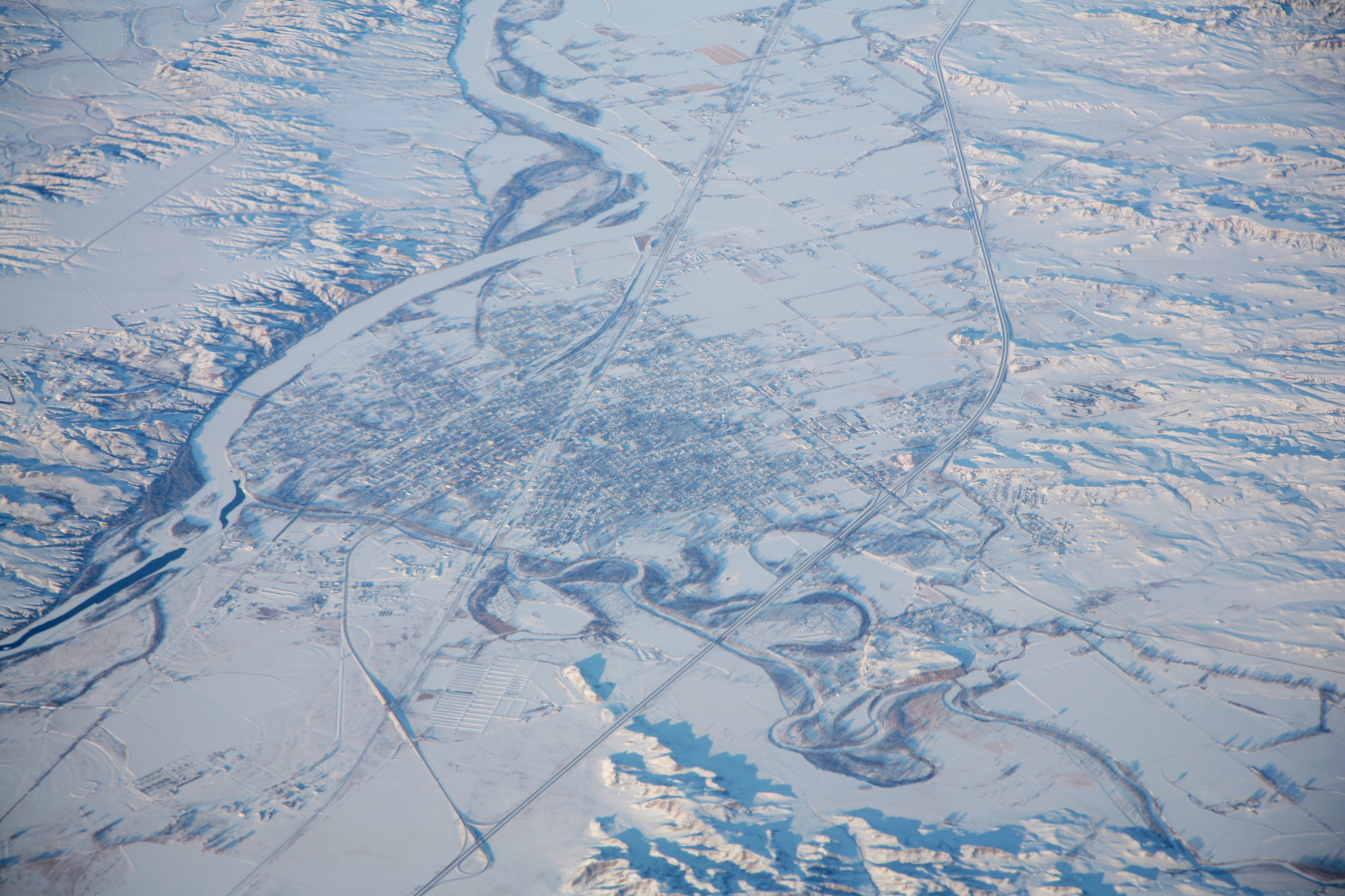 Aerial shot of Miles City, Montana